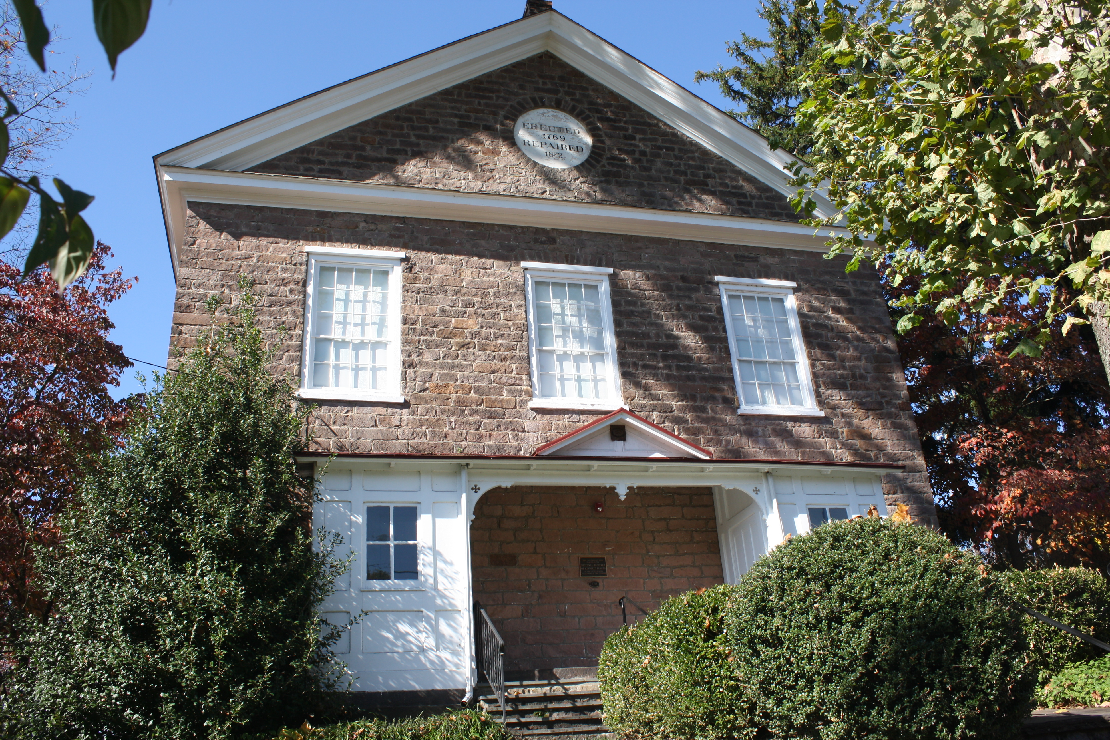 Newtown Presbyterian Church, also known as Old Presbyterian Church of Newtown, is a historic church in Newtown, Bucks County, Pennsylvania. Object location40° 13′ 56″ N, 74° 56′ 20″ W